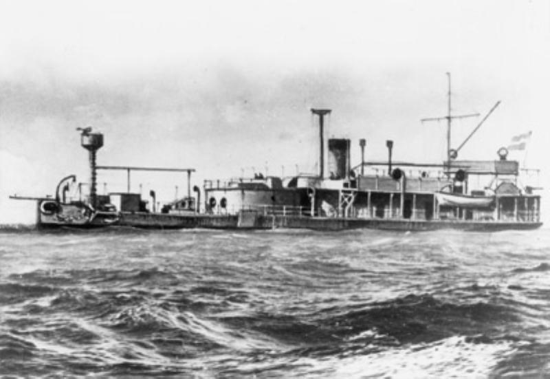 The Dutch montor Draak, launched in 1877